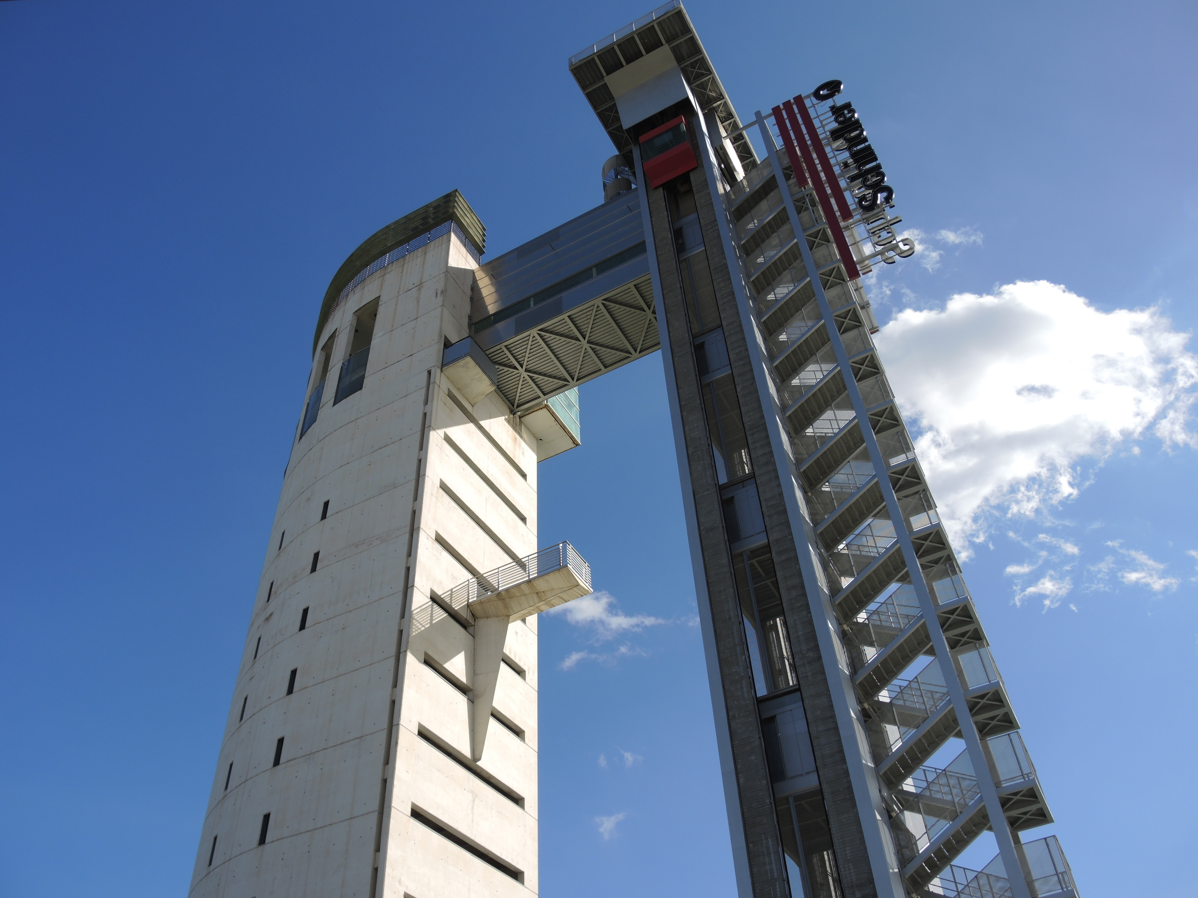 Tower at Pavilion of Navigation Seville Spain